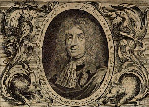 Portrait of Johann Täntzer